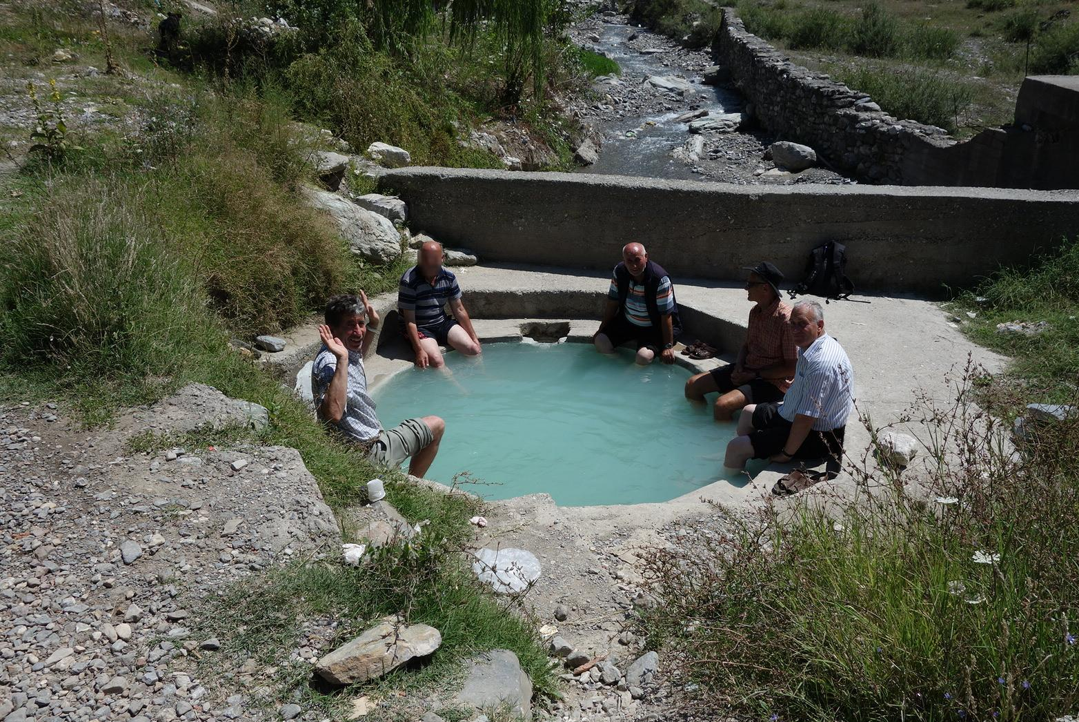 Public Thermal bath in Peshkopi